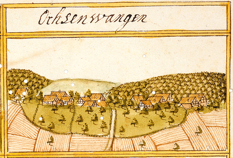 View of Ochsenwang, Bissingen an der Teck, from the forest register books created by Andreas Kieser